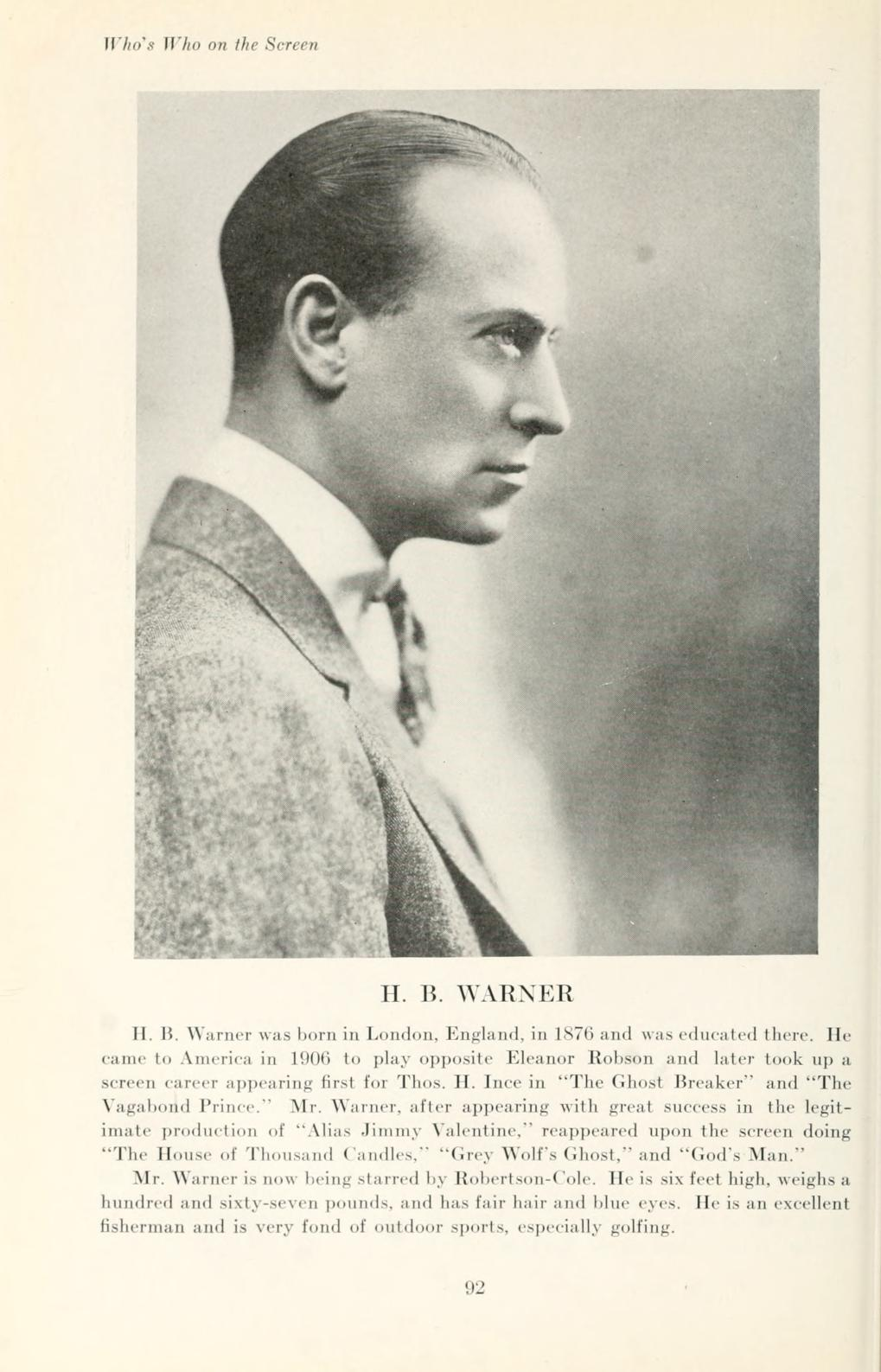 Henry Byron Warner (1875-1958), British film and stage actor